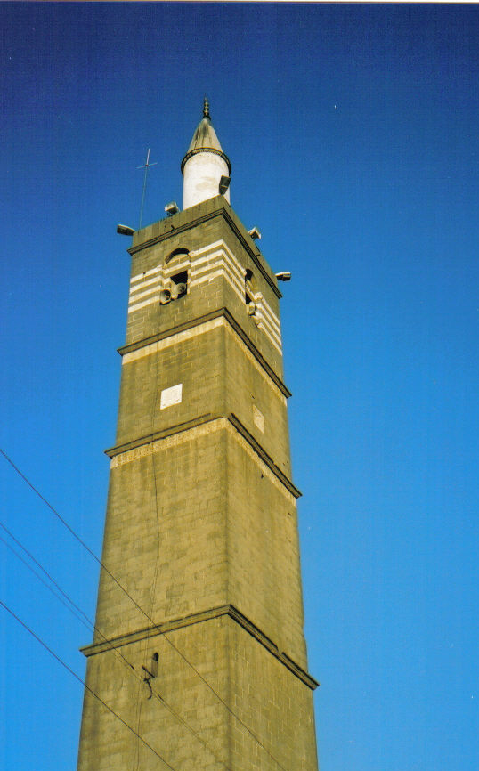 The 12th Century Ulu Cami in Diyarbakir, Turkey, dominates the city's skyline. (C) Gerry Lynch, 2003.